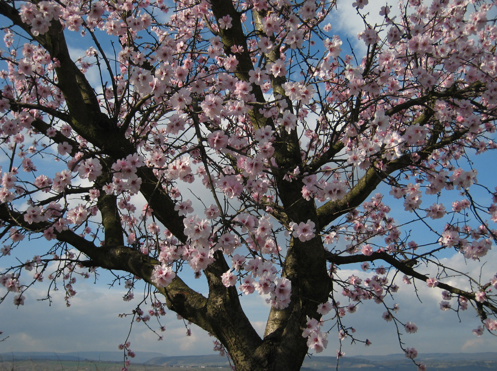 blossoming almond tree (Prunus dulcis) in the Middle Rhine area of Germany